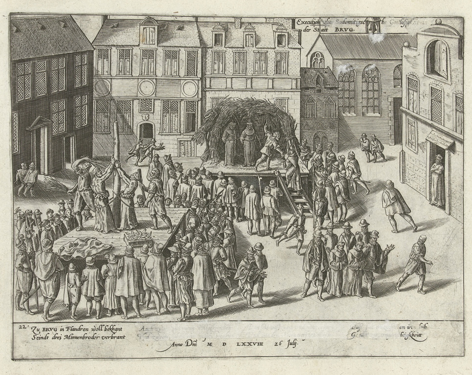 Burning Monks in Brugge1578